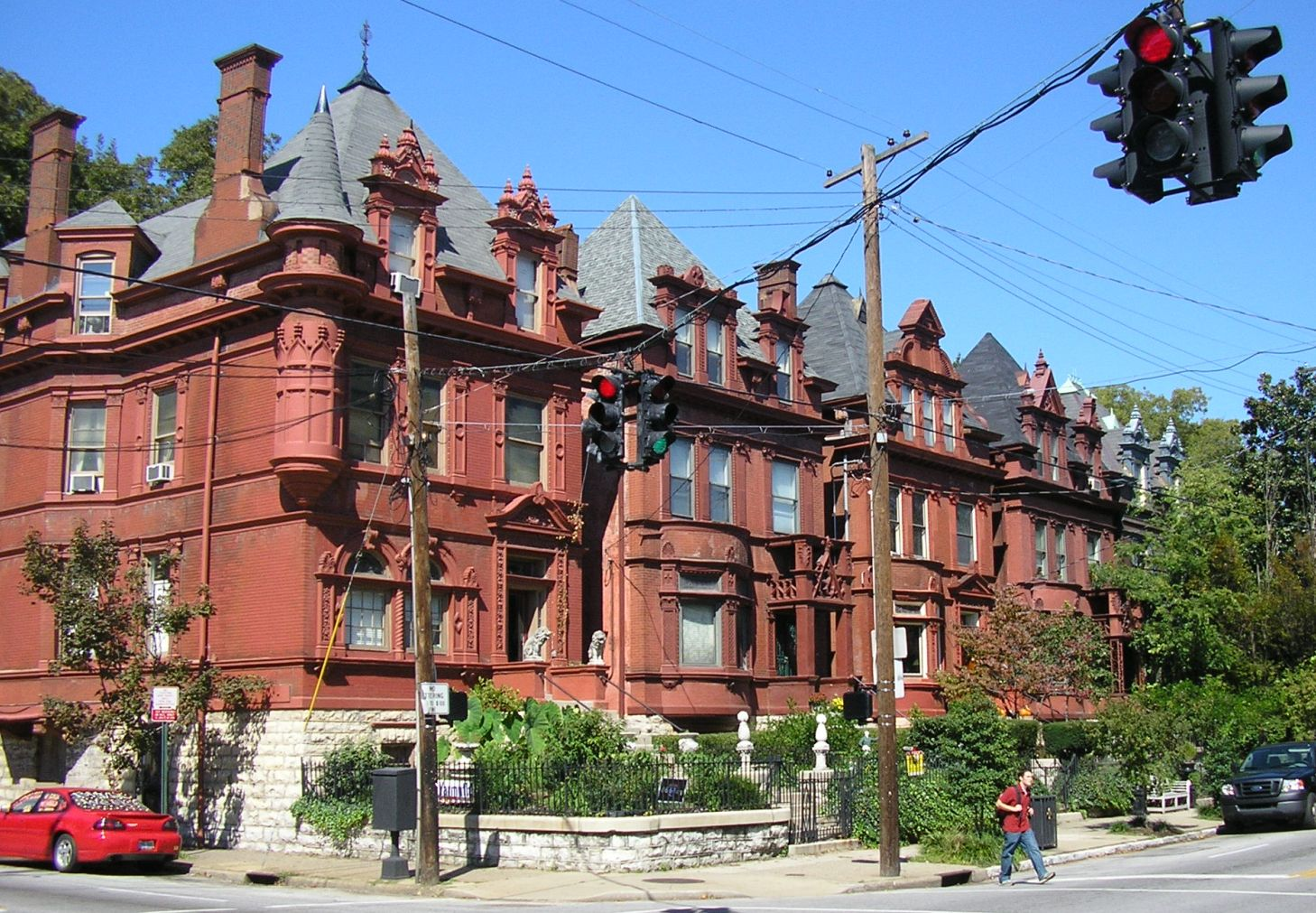 I took this picture in September 2006. Werne's Row. Old Louisville in Louisville, Kentucky. 4th & Hill street intersection, Northwest corner.